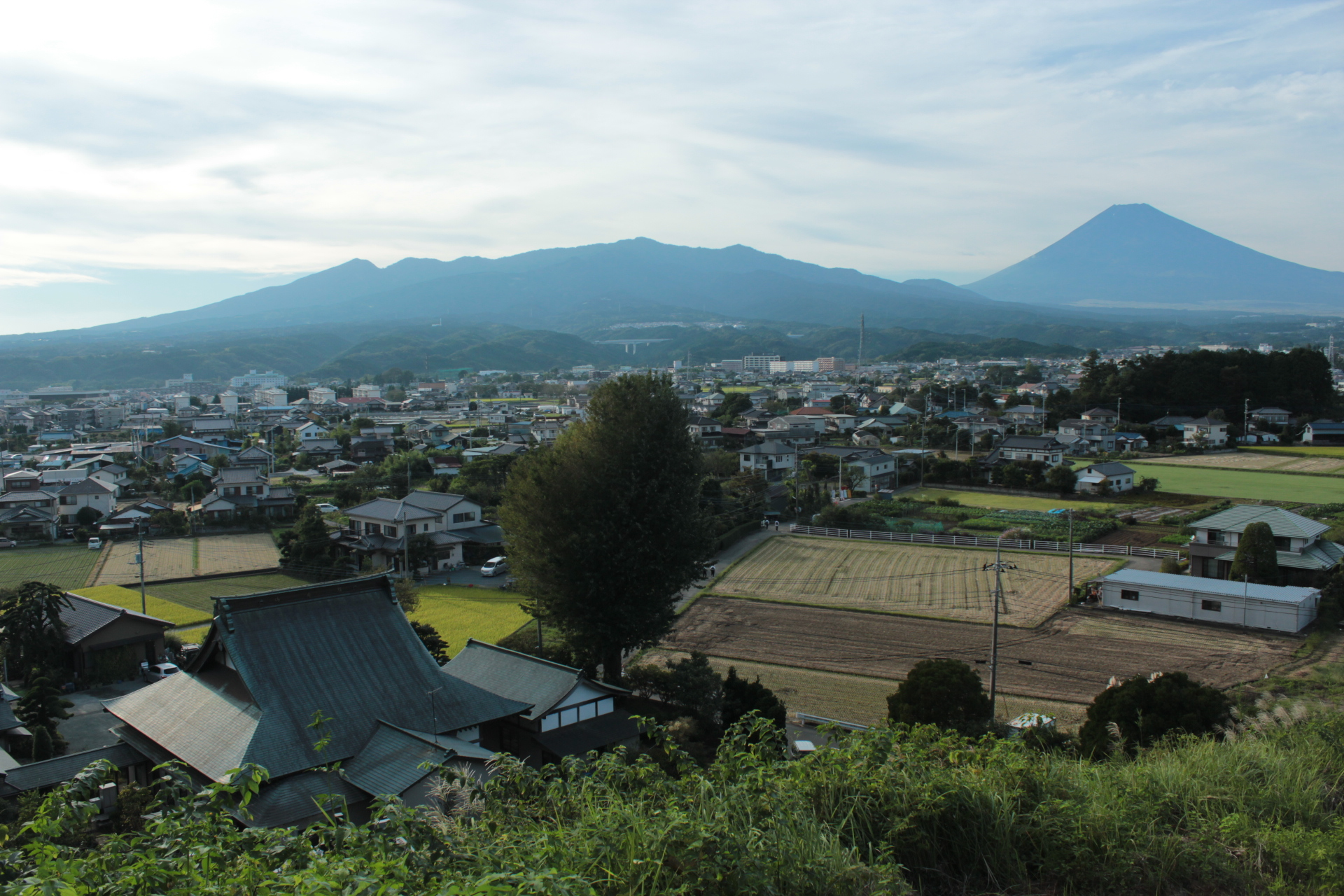 View of Susono city, Shizuoka prefecture, Japan.